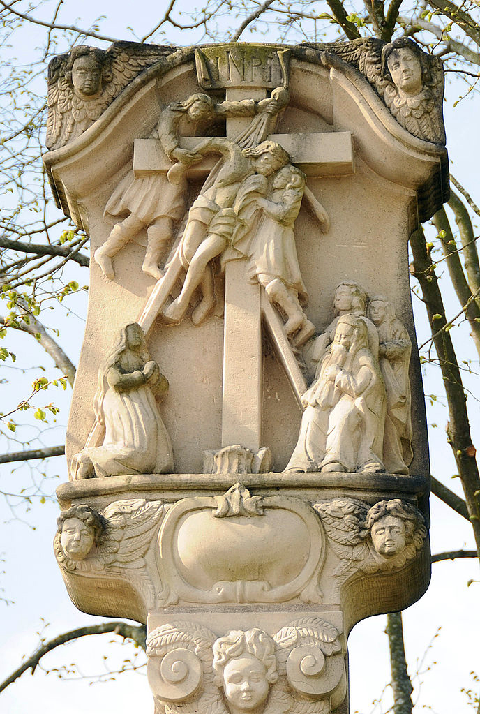 Station of the Cross at Bissen, Luxembourg, near Saint Roch's chapel.